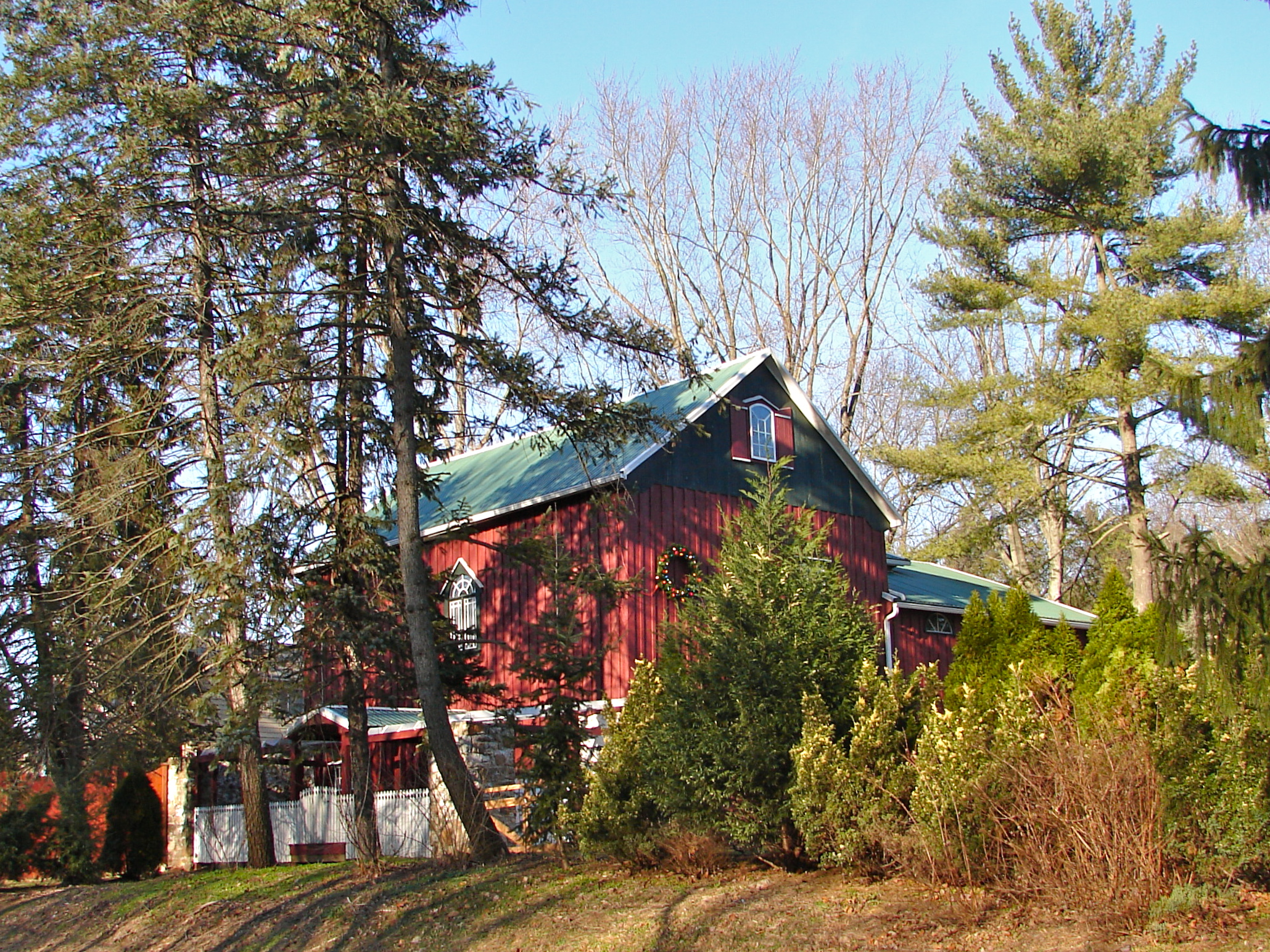 Barn on J. Stinson Farm. Farm on the NRHP since November 13, 1986. At 750 Corner Ketch Rd., north of Newark, New Castle County, Delaware.